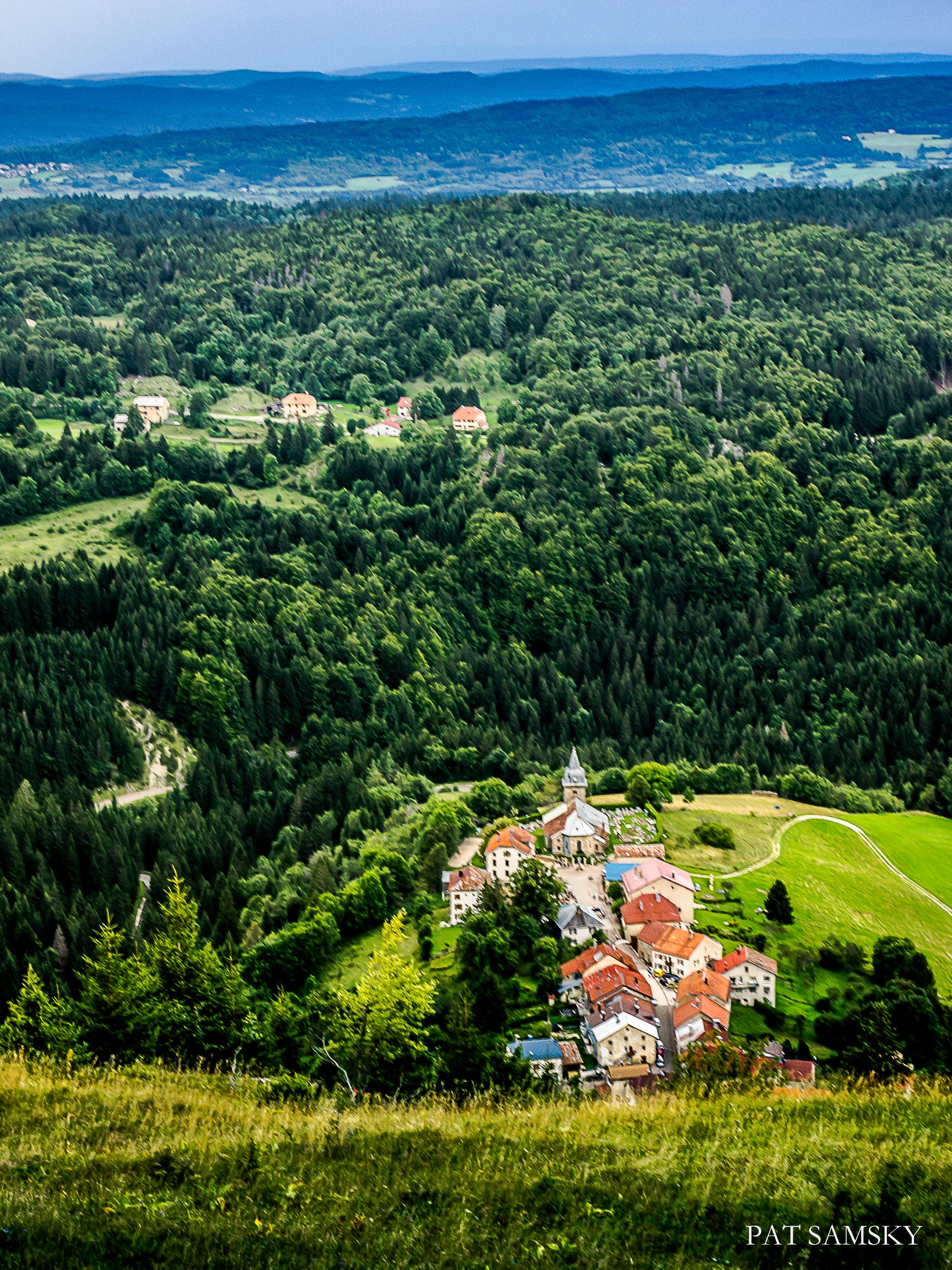 Les Bouchoux